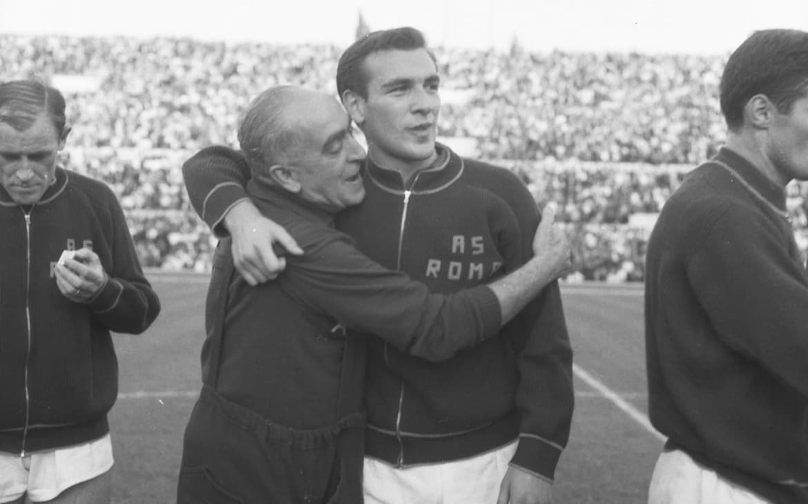 Rome (Italy), Olympic Stadium. Italian-Argentine footballer Antonio Valentín Angelillo (centre) with A.S. Roma in the 1st half of the 1960s.